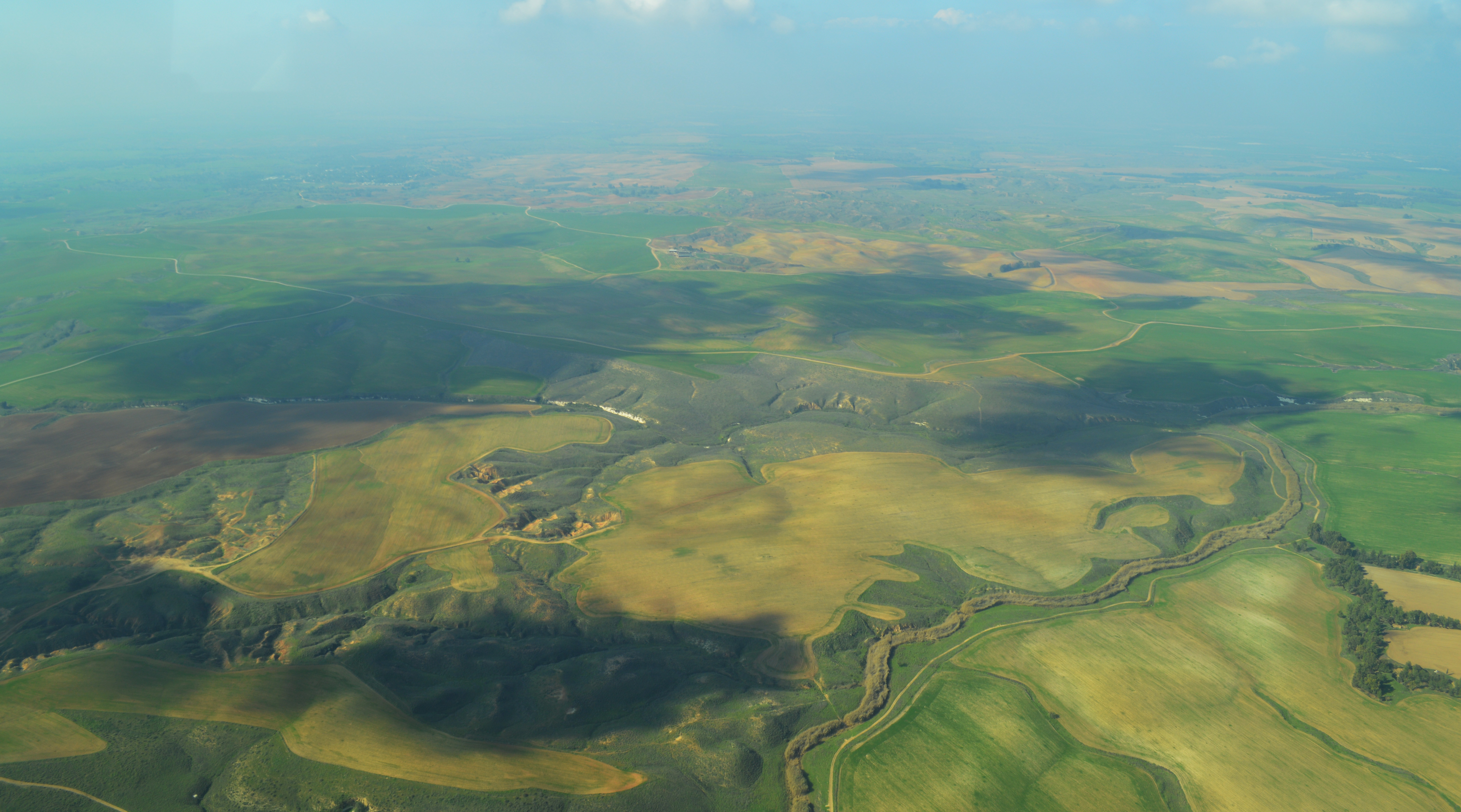 Hevel Lakhish Aerial View